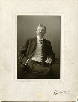 Professional photograph of David Forsyth